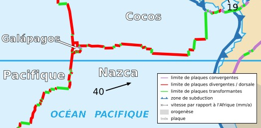 Map of the Galapagos Plate